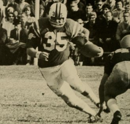 Bo Hickey rushing against Navy in 1964